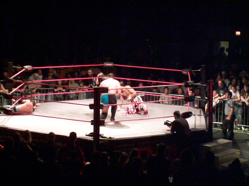 Samoa Joe and “Black Machismo” Jay Lethal vs Tomko and AJ Styles